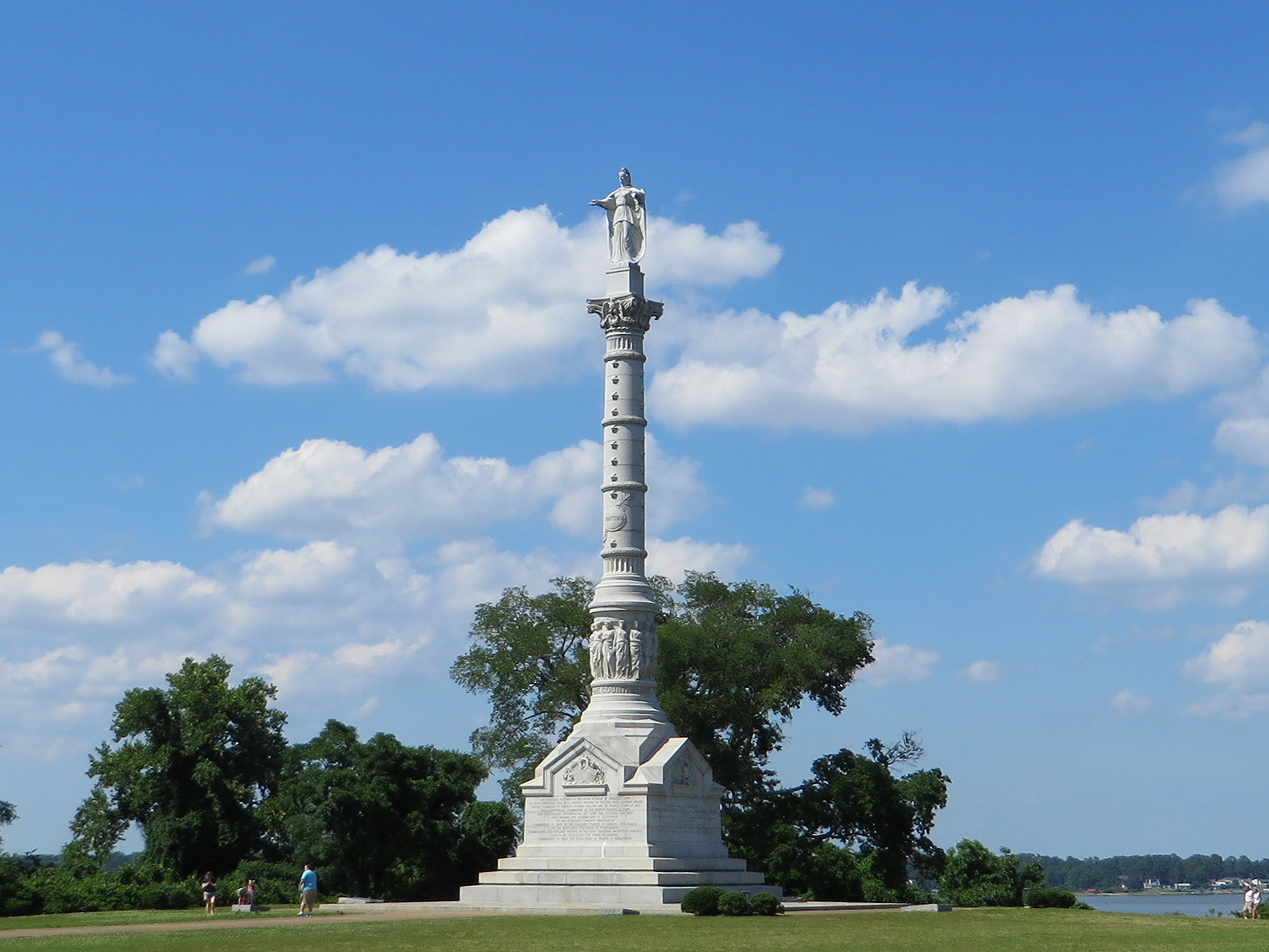 Overlooking the York River in Yorktown itself is the Yorktown Victory Monument, which memorializes the end of the American Revolution and celebrates the ultimate intervening peace between Great Britain and the United States in the centuries to follow. The Siege of Yorktown or Battle of Yorktown in 1781 was a decisive victory by a combined assault of American forces led by General George Washington and French forces led by General Comte de Rochambeau over a British Army commanded by General Lord Cornwallis. It proved to be the last major battle of the American Revolutionary War, as the surrender of Cornwallis’s army (the second of the war) prompted the British government to eventually negotiate an end to the conflict.